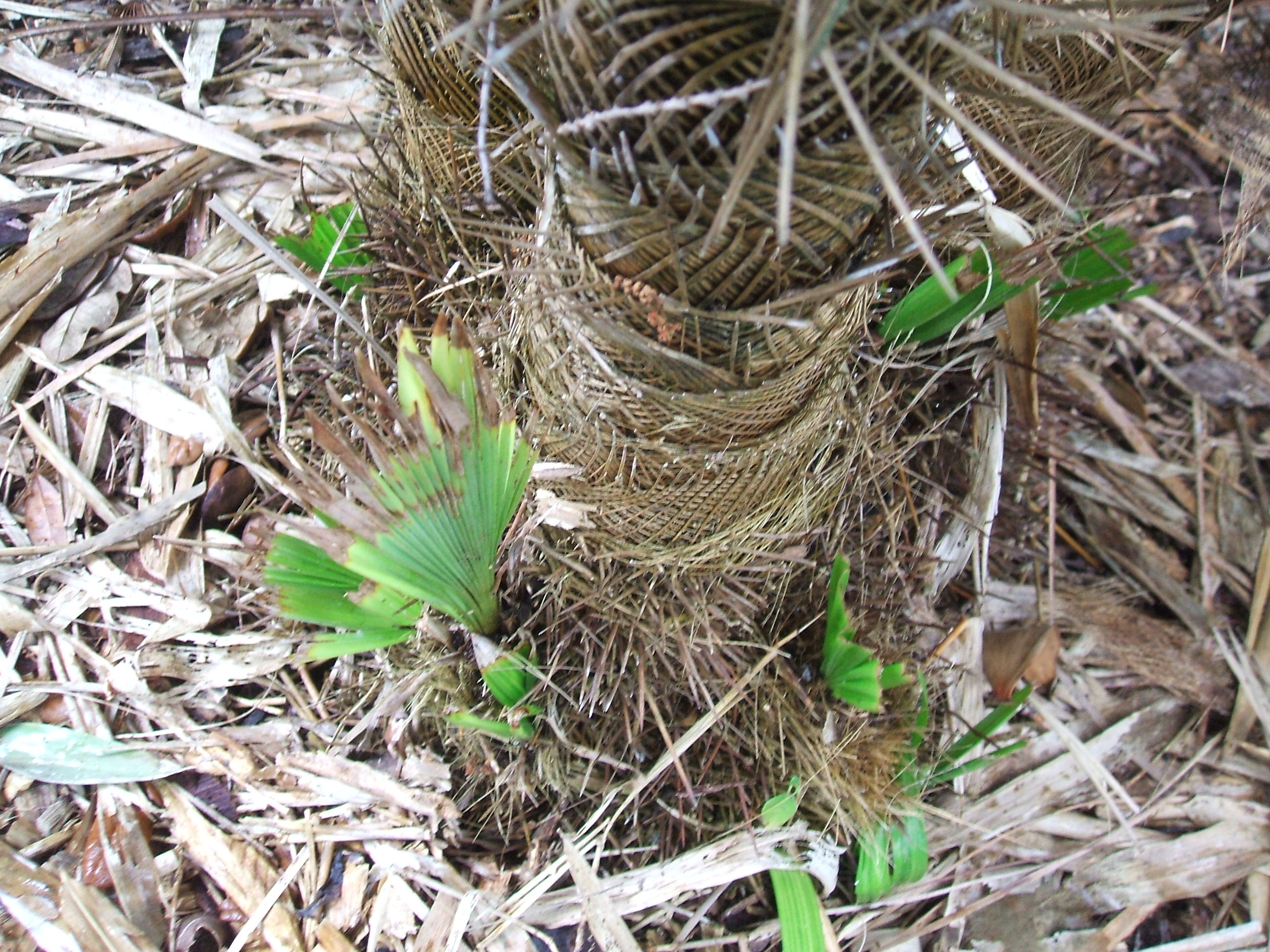 Zombia antillarum at Marie Selby Botanical Gardens, Sarasota, Florida, USA